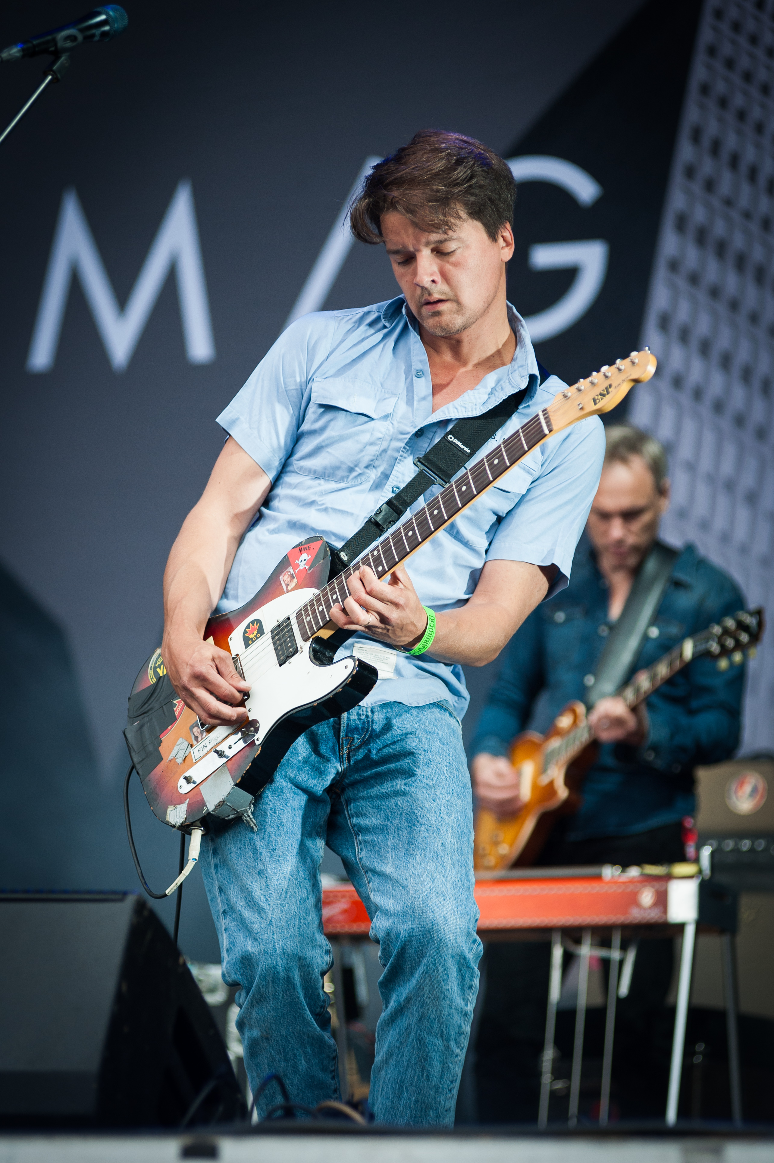 Finnish pop-rock-folk band Scandinavian Music Group performing at the Ilosaarirock festival in Joensuu, Finland.